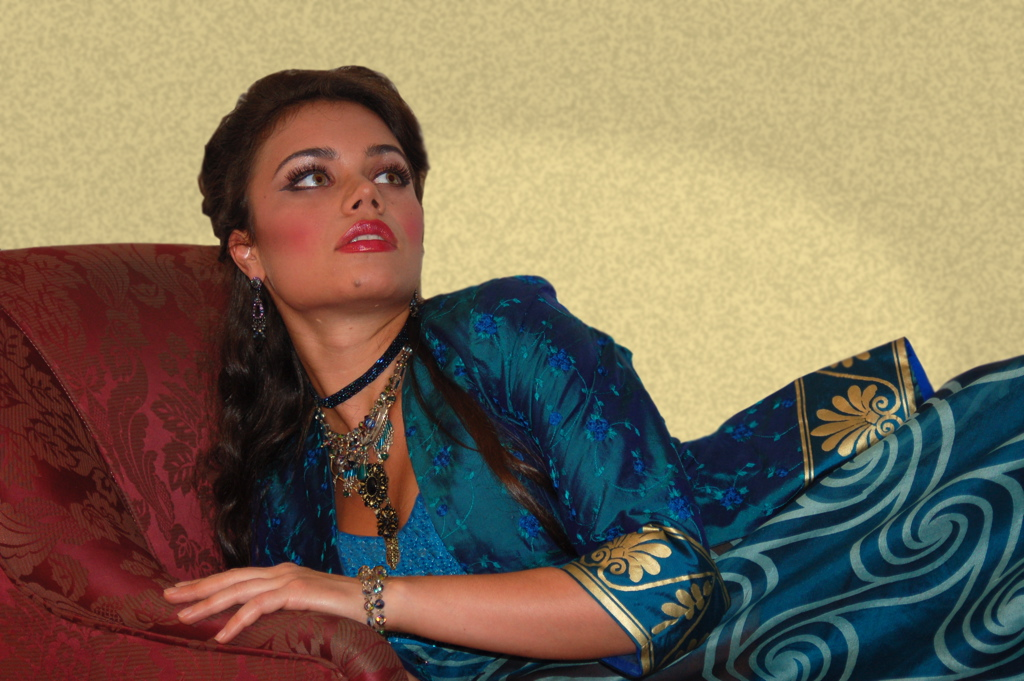 Ginger Costa-Jackson, mezzo-soprano, as Myrtale in the Metropolitan Opera's 2008 production of Massenet's Thais by Walt Jackson.